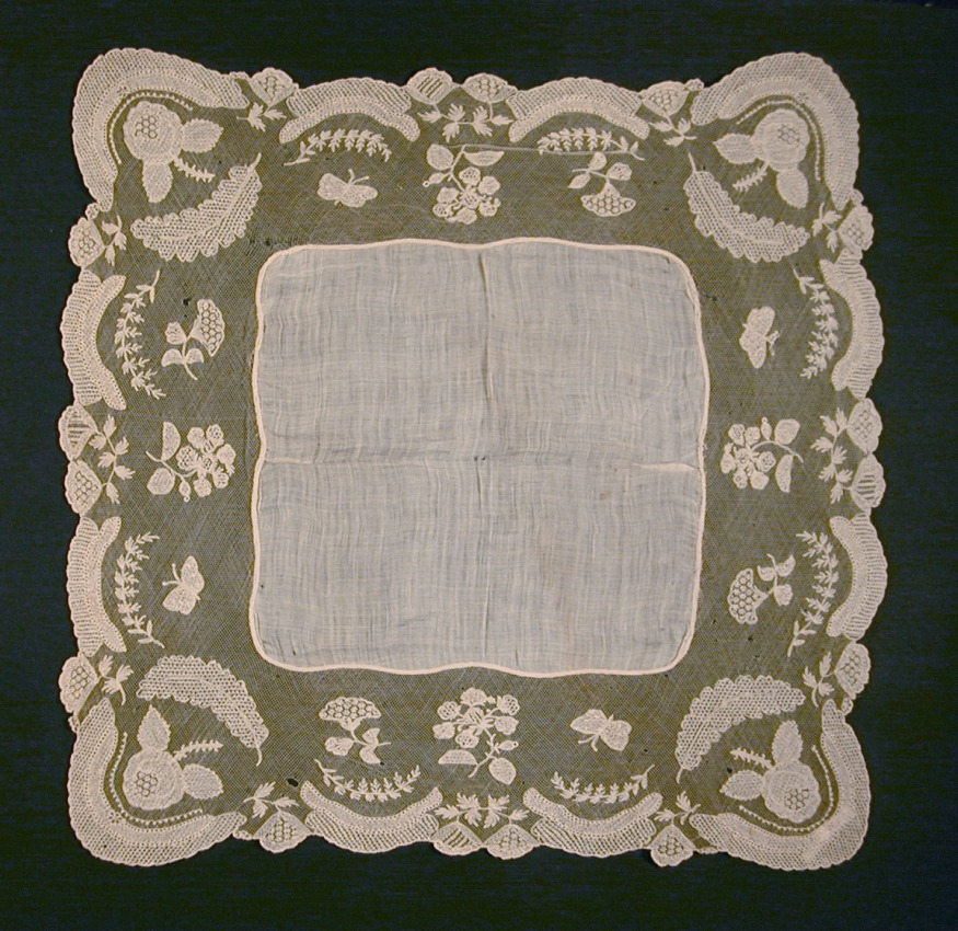 United States, late 19th century Costumes; Accessories Linen plain weave, cotton tambour embroidery on cotton net Gift of Miss Sara W. Lowman (42.33.4) Costume and Textiles